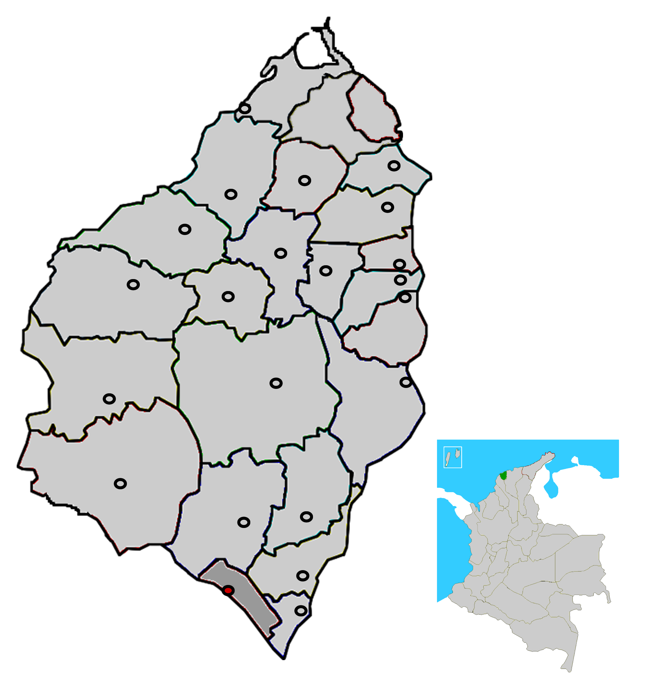 Image depicting map of santa lucia in the Atlantico Department, Colombia